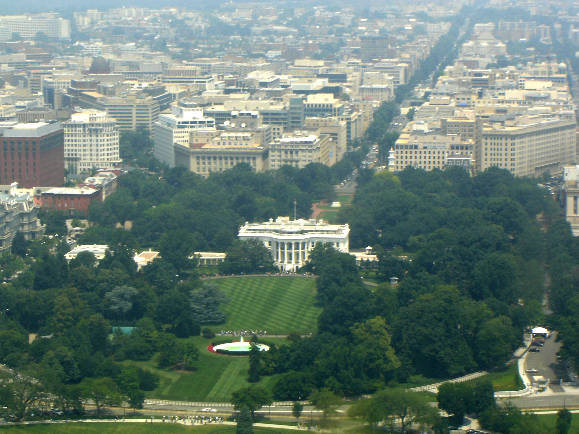 The White House as viewed from the Washington Monument